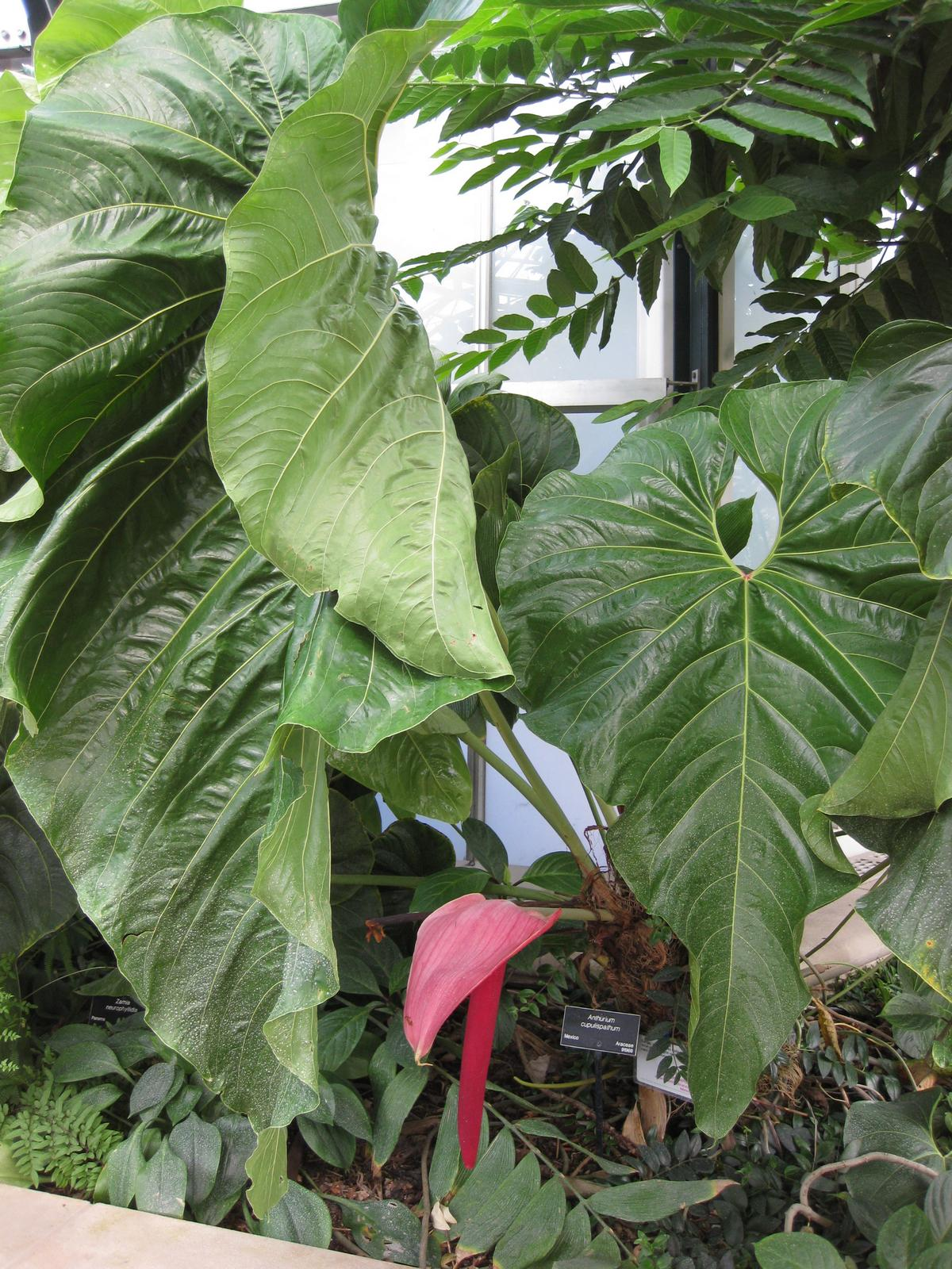 Photographed at Huntington Gardens (Los Angeles) in September